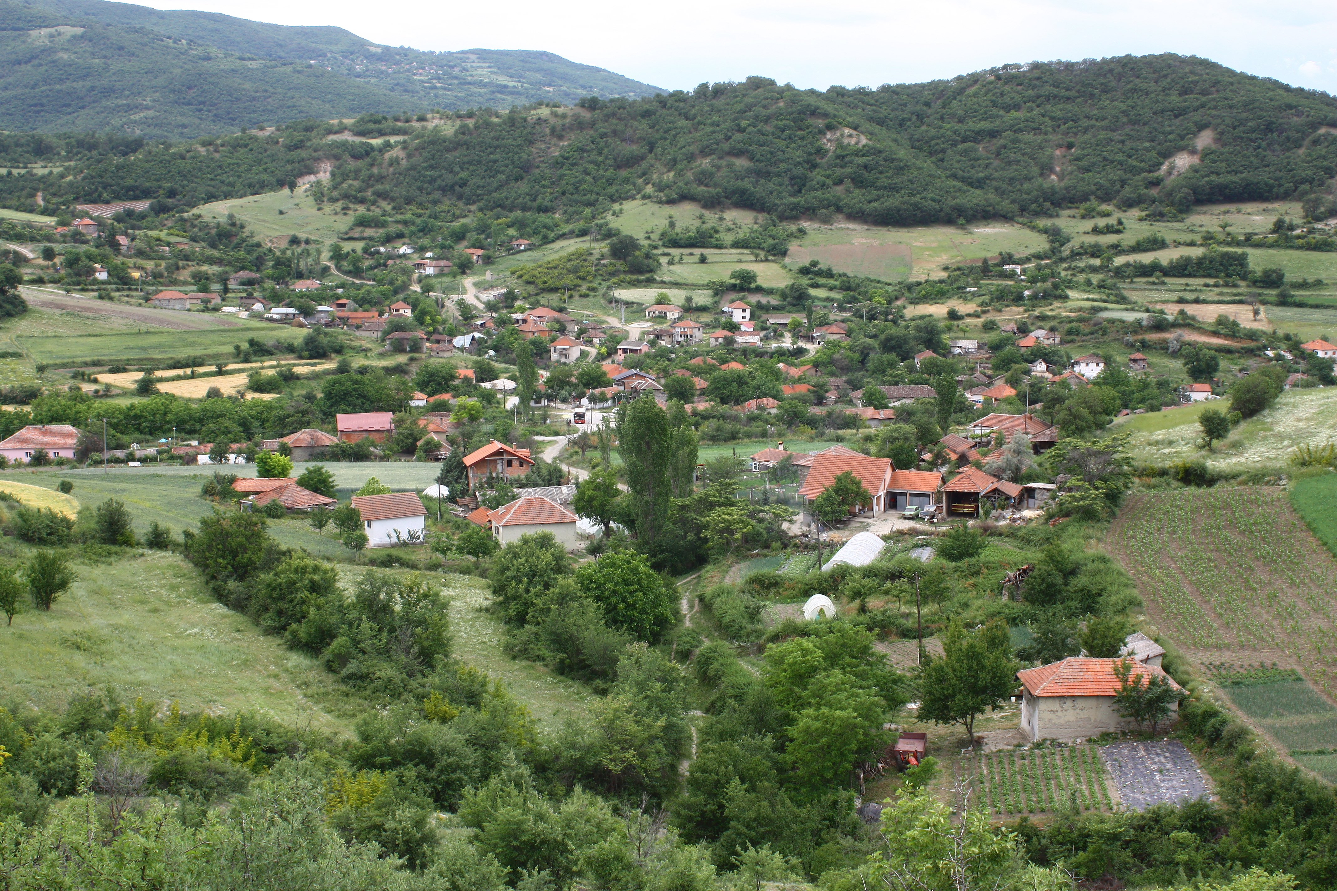 Sušica, Skopje, Macedonia